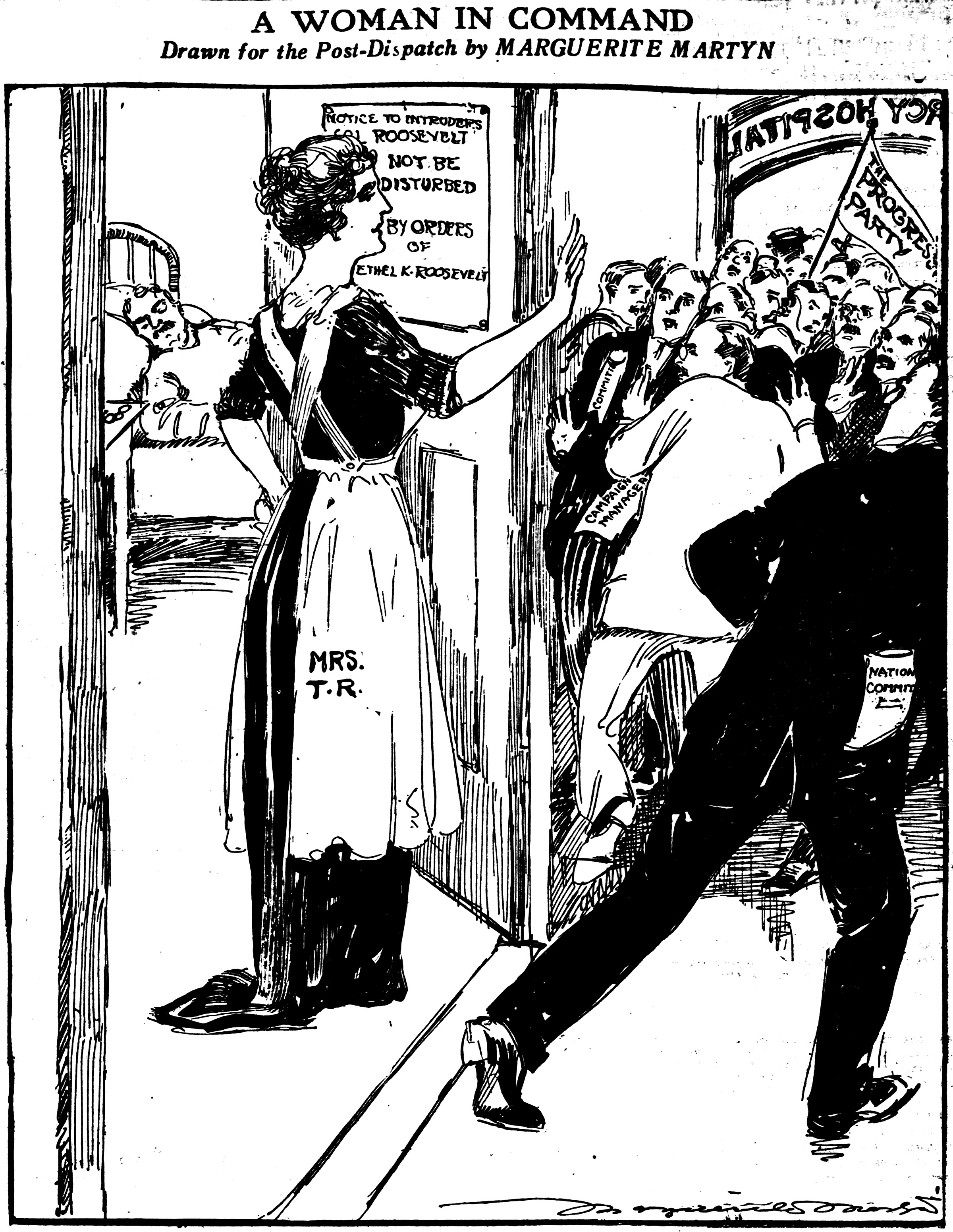 Cartoon by Marguerite Martyn portraying Edith Roosevelt guarding the door to Theodore Roosevelt's room as he was recuperating from a bullet wound, 1912